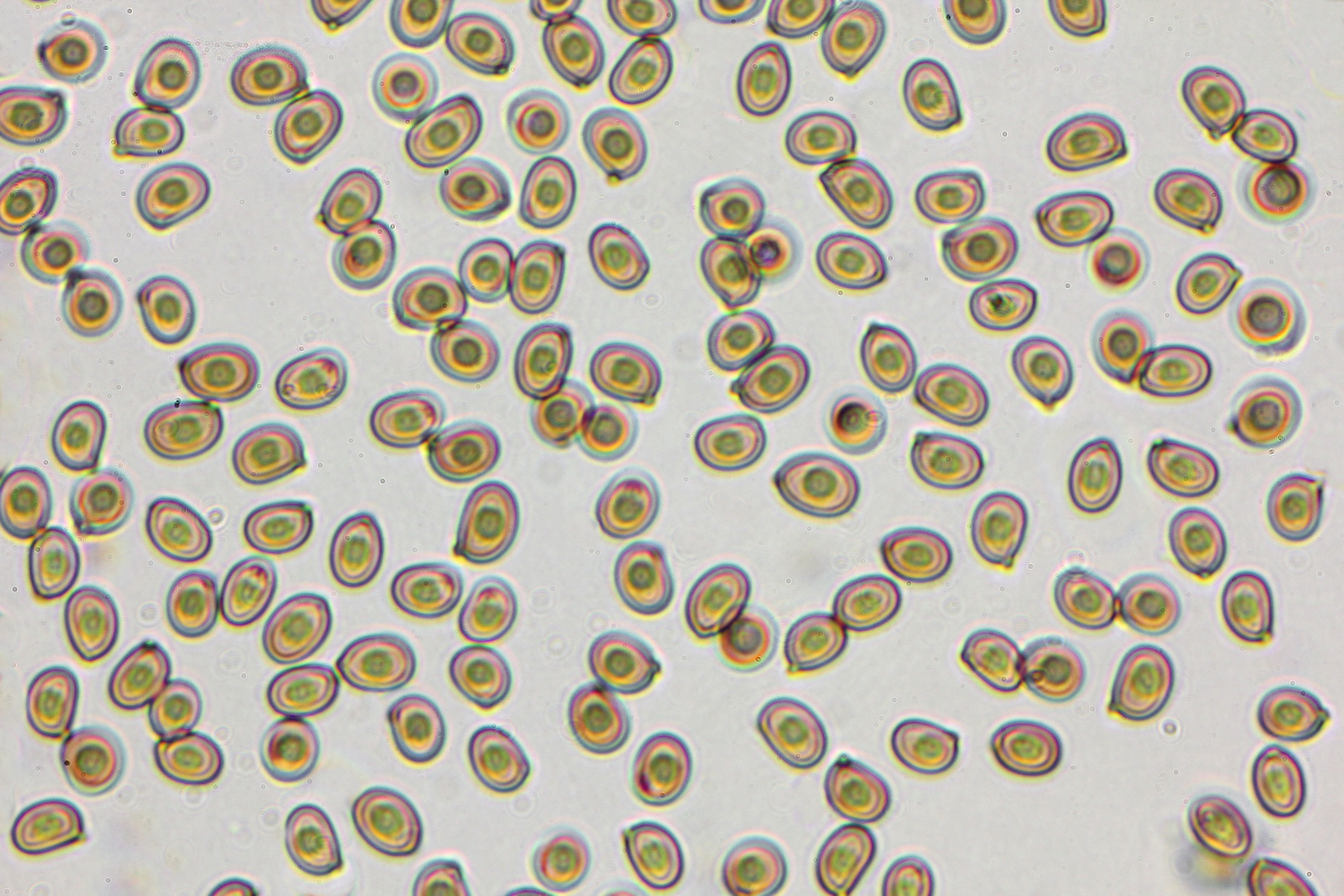 This image is Image Number 300365 at Mushroom Observer, a source for mycological images. This tag does not indicate the copyright status of the attached work. A normal copyright tag is still required. See Commons:Licensing.